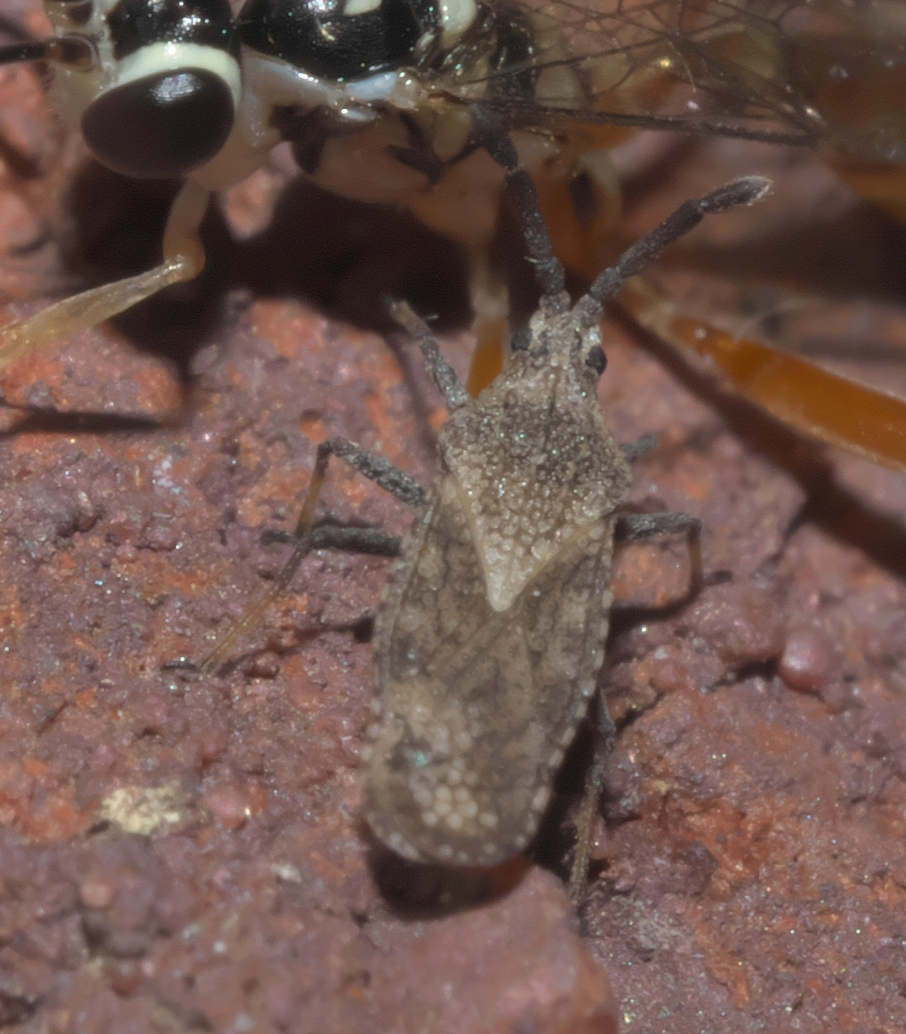 Teleonemia nigrina, Family: Lace Bugs, Size: around 3.2 mm, ID Confidence: 90